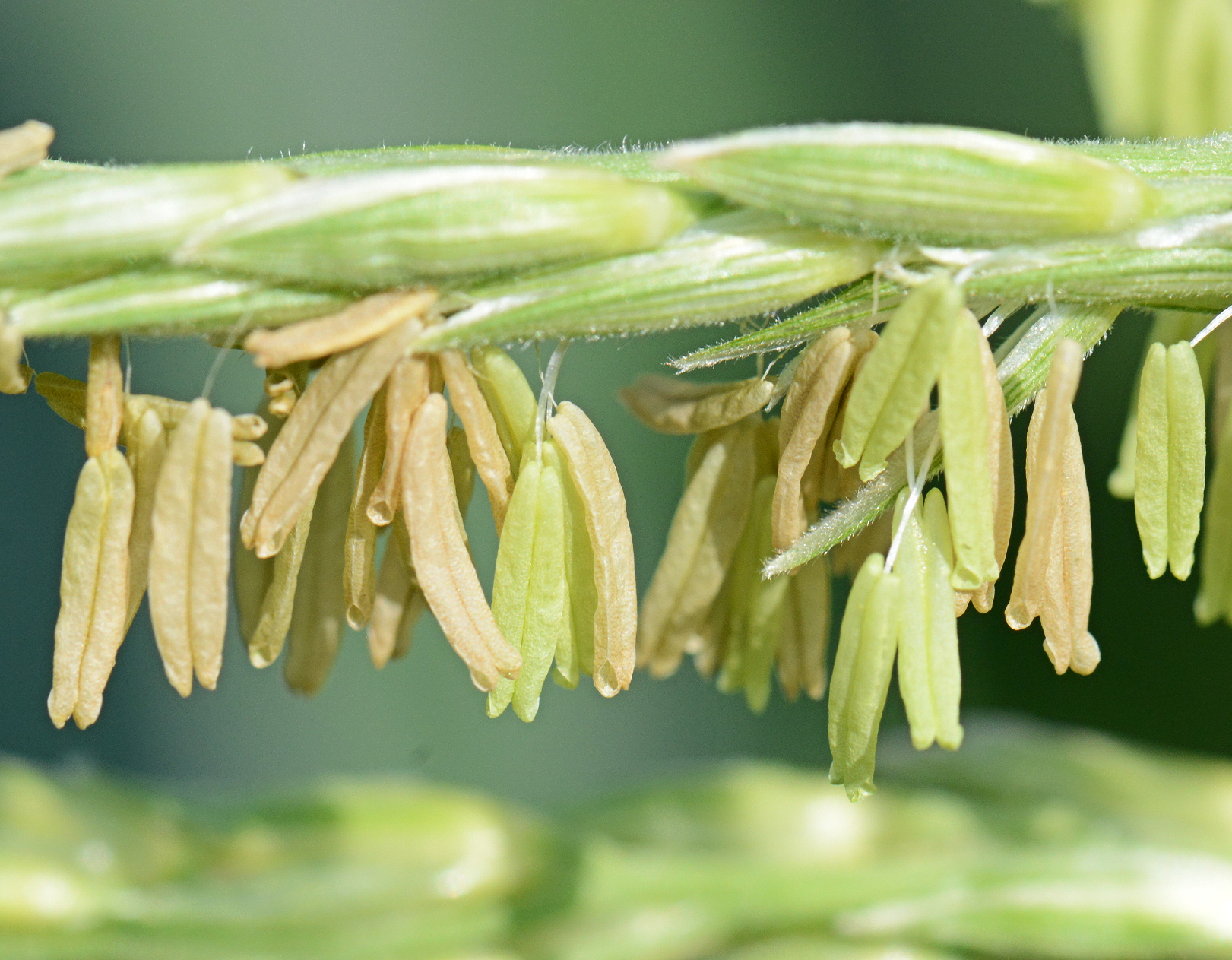 Zea mays, sweet corn stamens